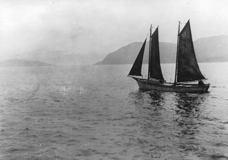 Bonne Bay, West Coast, NF, 1908